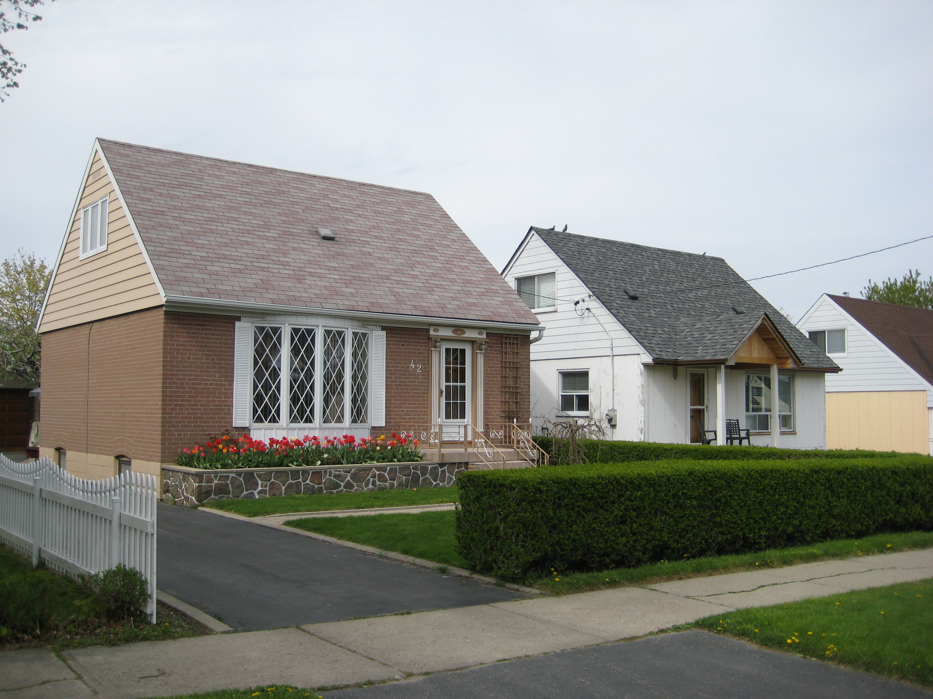 The Elms houses